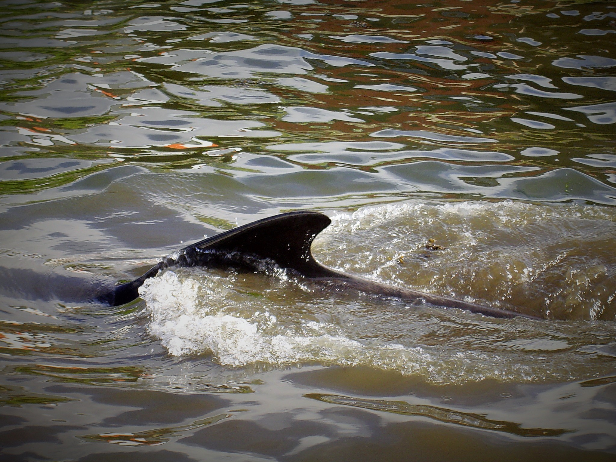 Long-finned pilot whale in Vágsfjørður, Suðuroy - Faroe Islands